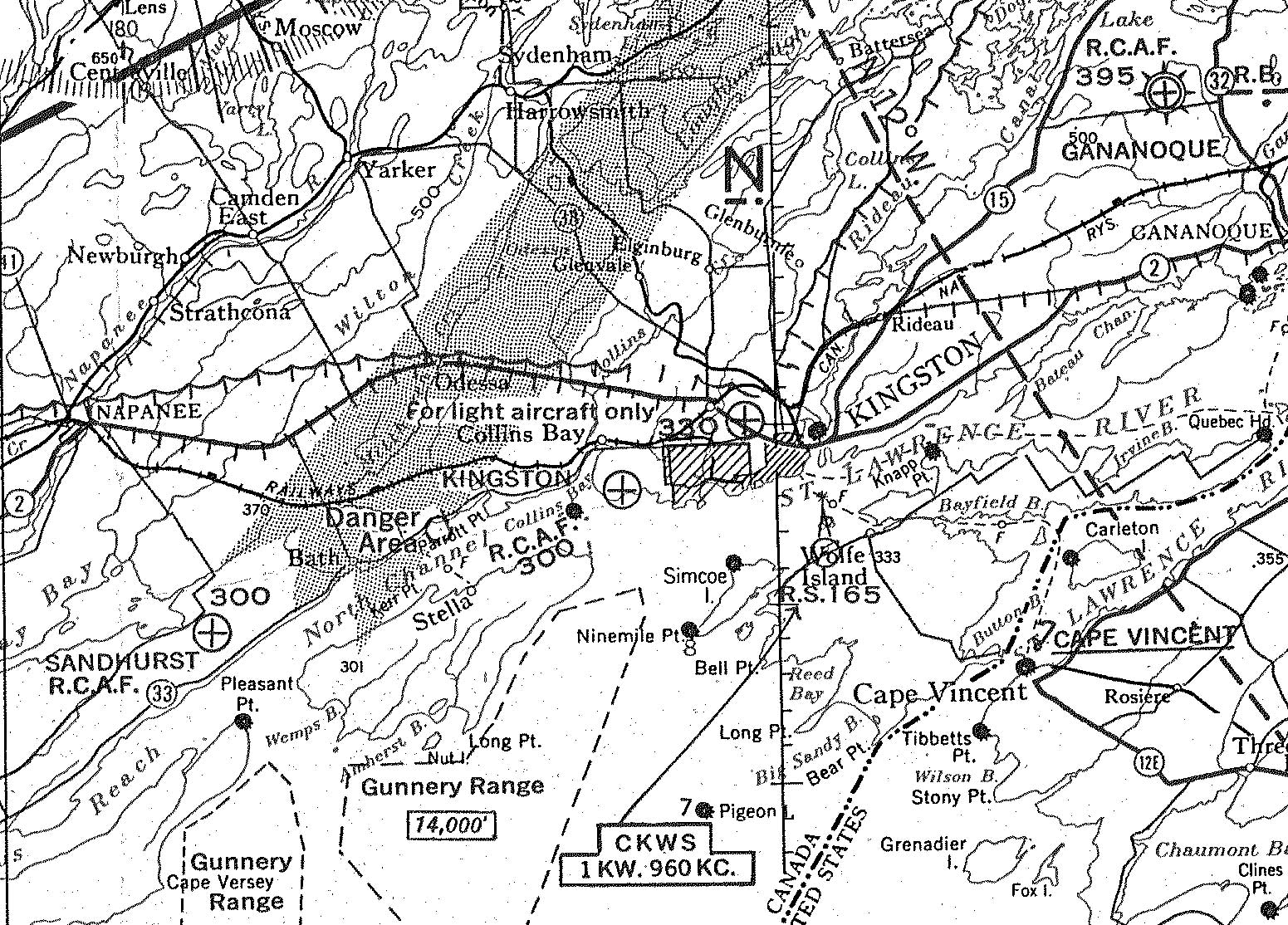 Piece of Toronto Ottawa air navigation chart showing the RCAF airfields at Sandhurst, Kingston, and Gananoque.